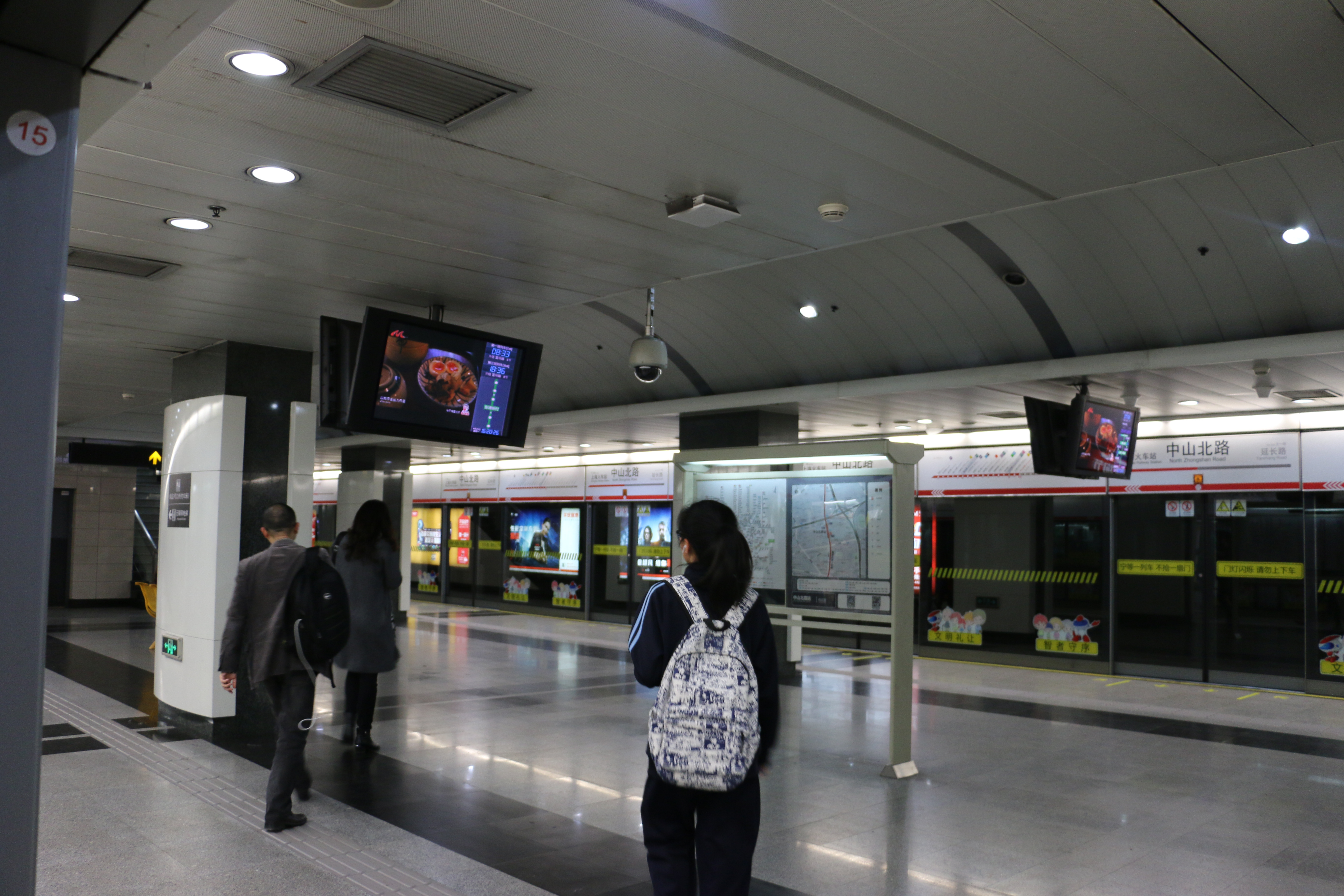 201604 Platform of North Zhongshan Road Station